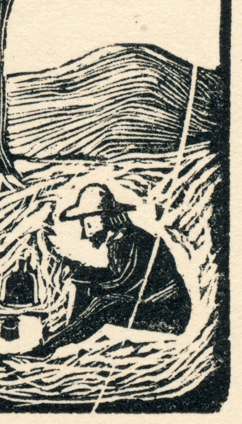 Detail of a woodcut from The Graver and the Pen